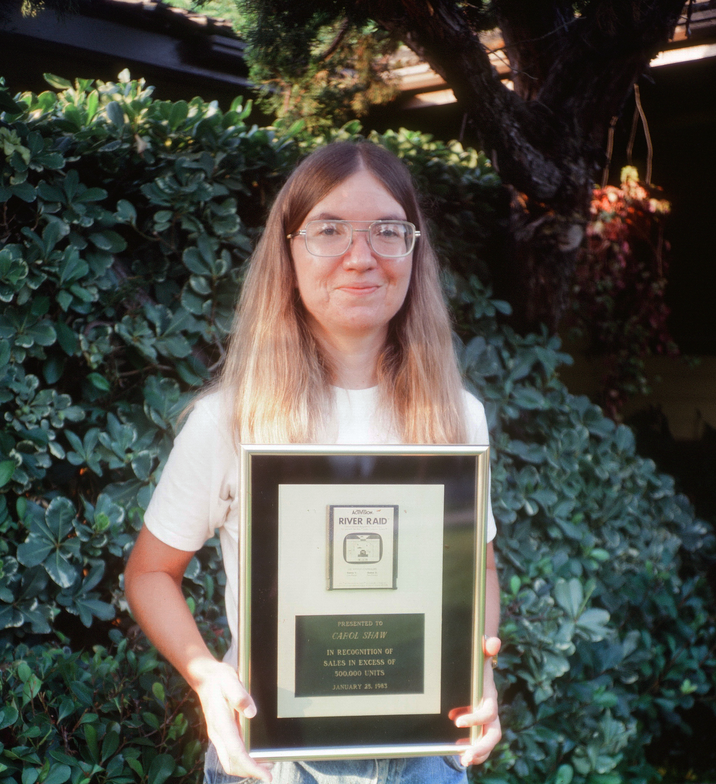 Carol Shaw holding her gold River Raid cartridge "Presented to Carol Shaw in recognition of sales in excess of 500,000 units January 25, 1983". The platinum cartridge for 1,000,000 units was awarded later.